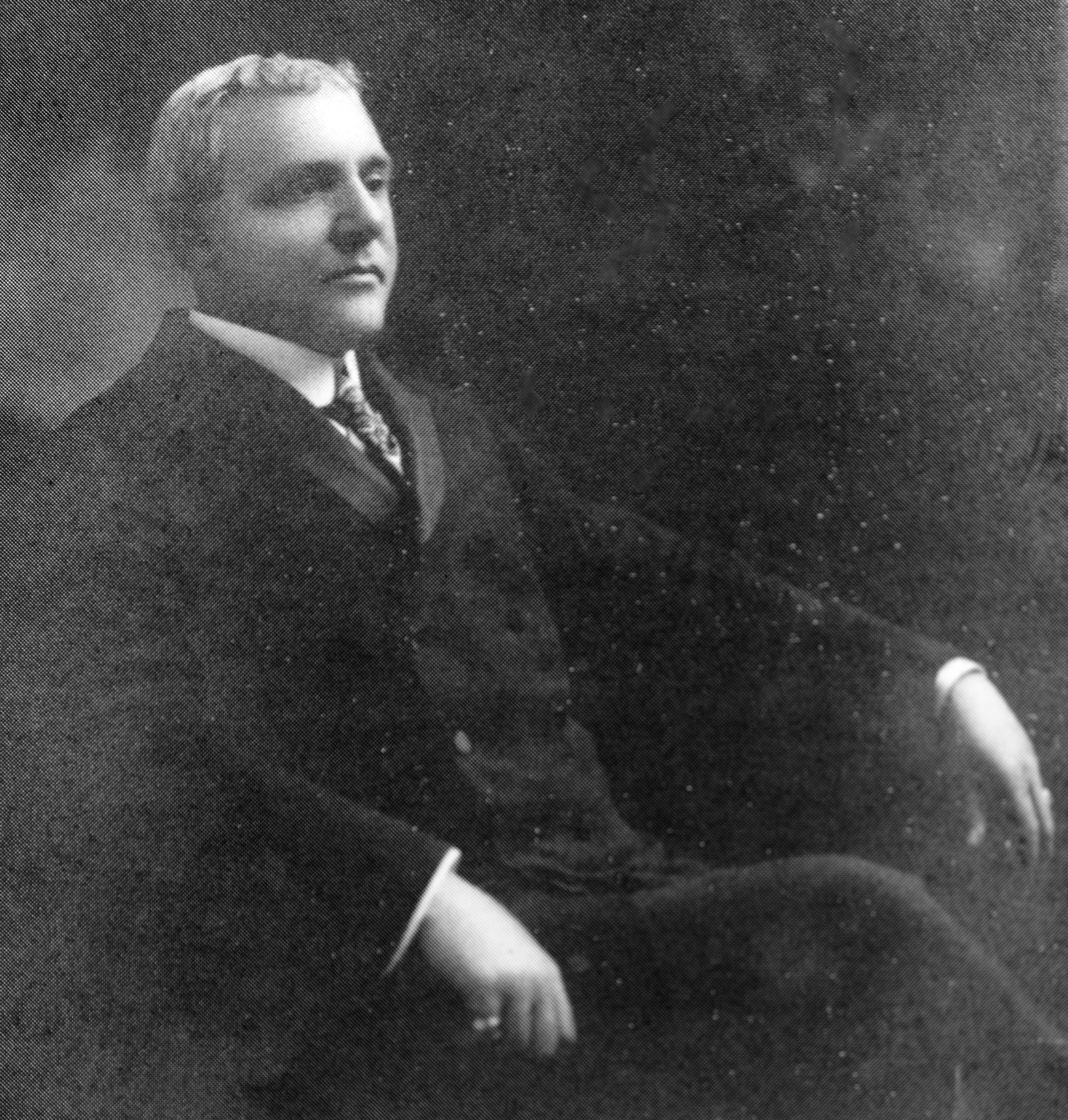 portrait of William. W. Walter needed for article "Eschatology (religious movement)" and its translation for the Spanish Wikipedia